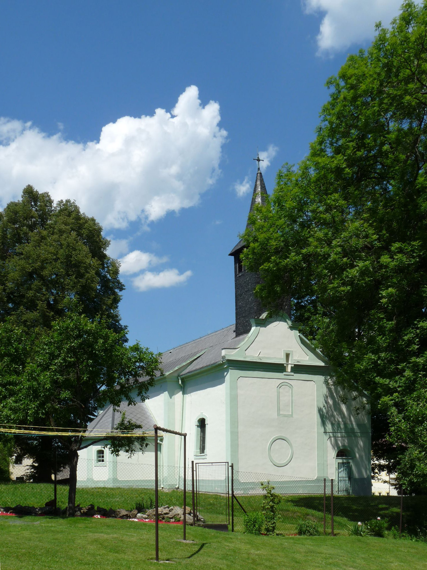 Saints Philip and James Church in the municipality of Dlouhá Ves, Klatovy District, Plzeň Region, Czech Republic.